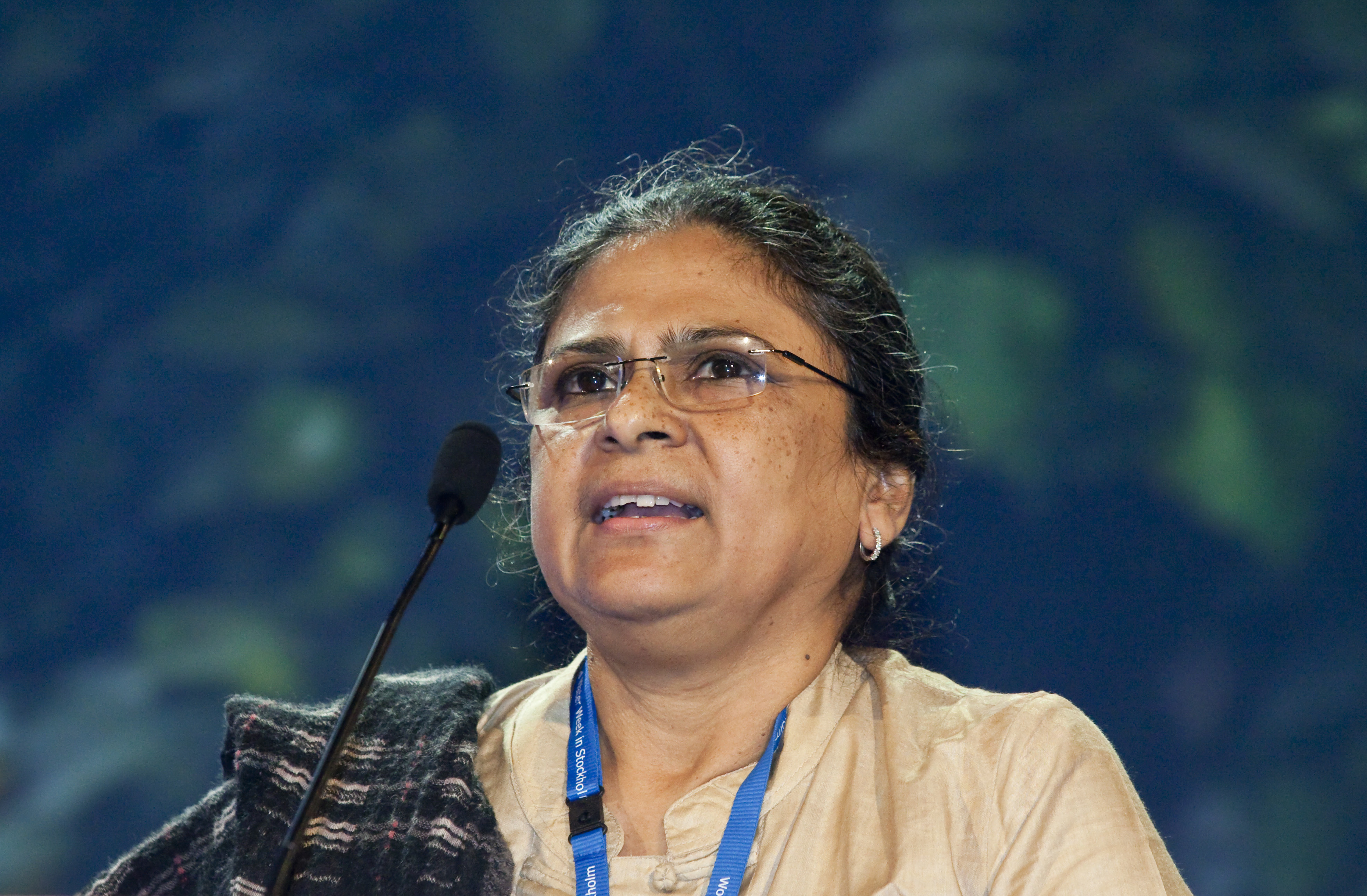 2011 World Water Week Opening Plenary Monday 10:00-12:00, 2011-08-21, Dr. Sheela Patel, chair of Shack/Slum Dwellers International (SDI).Photo credit: Thomas Henrikson/SIWI